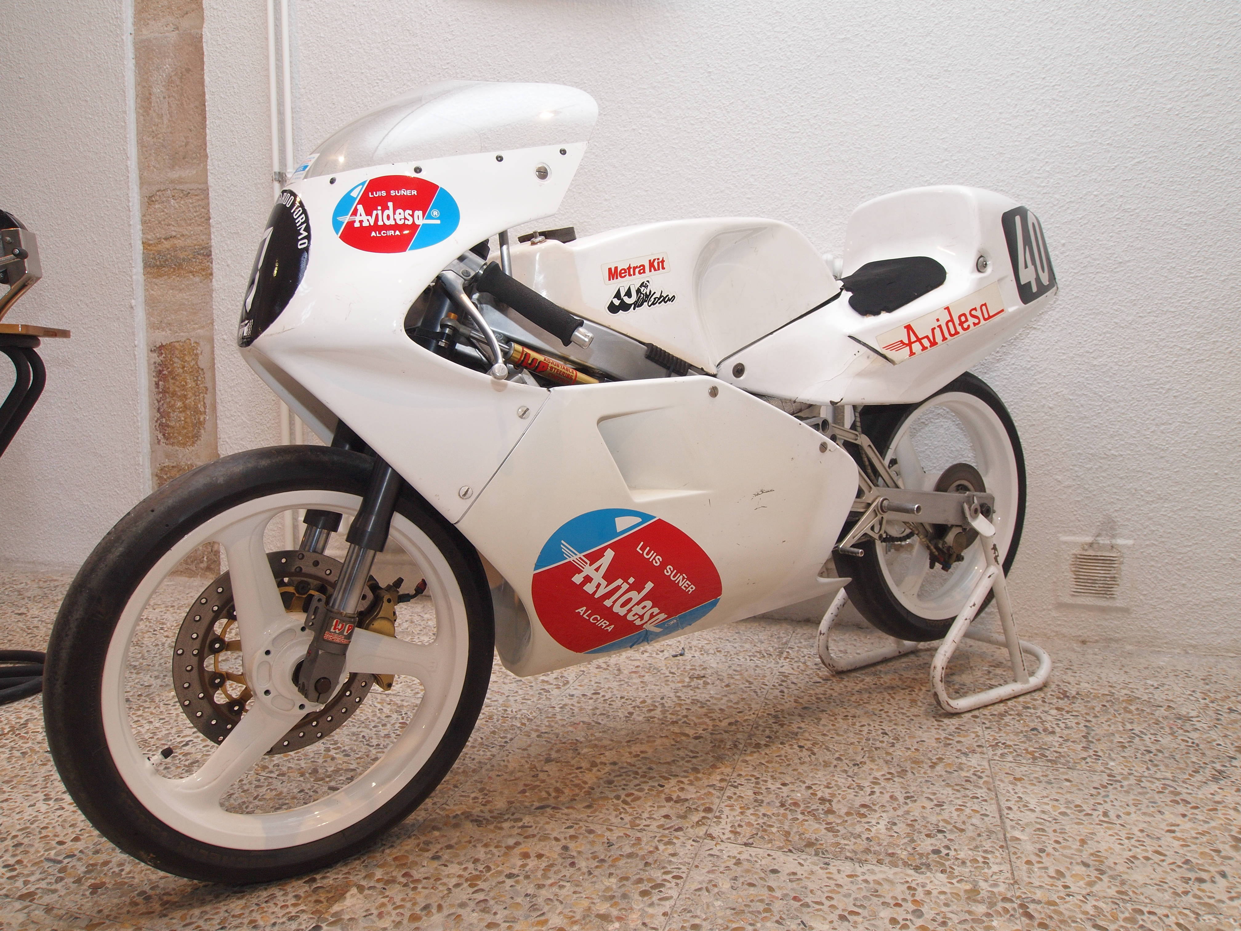 JJ Cobas racing motorcycle (1982) with Rotax engine of 125cc; At exhitibion in the II Show "Toda una Vida en Moto" of the Asociacion Motociclista Zamorana (Zamora, Spain, February 2012) (year 1982 taken from the Show's info but dubious, probably better around 1988)